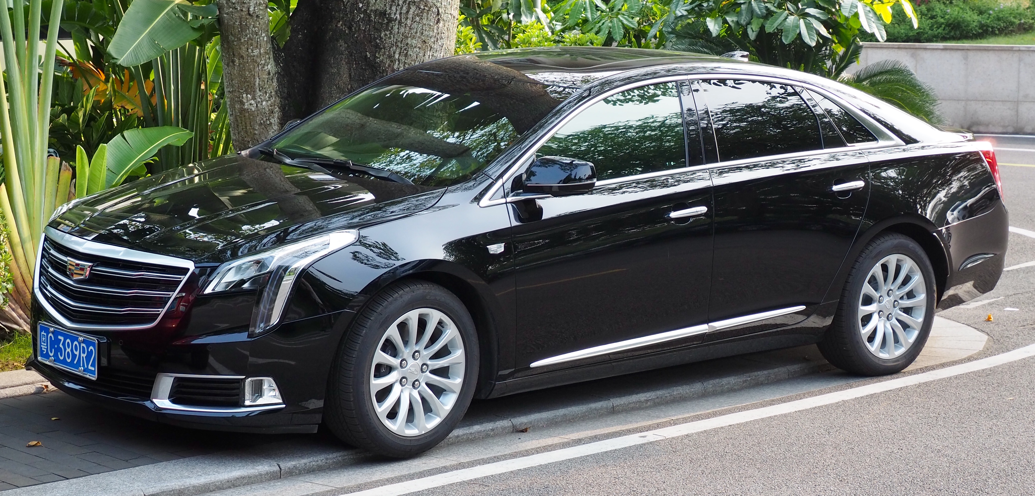 A 2018 Cadillac XTS photographed in Zhongshan, Guangdong province, China. 中文（中国大陆）: 一辆2018年的凯迪拉克XTS，摄于中国广东省中山市。